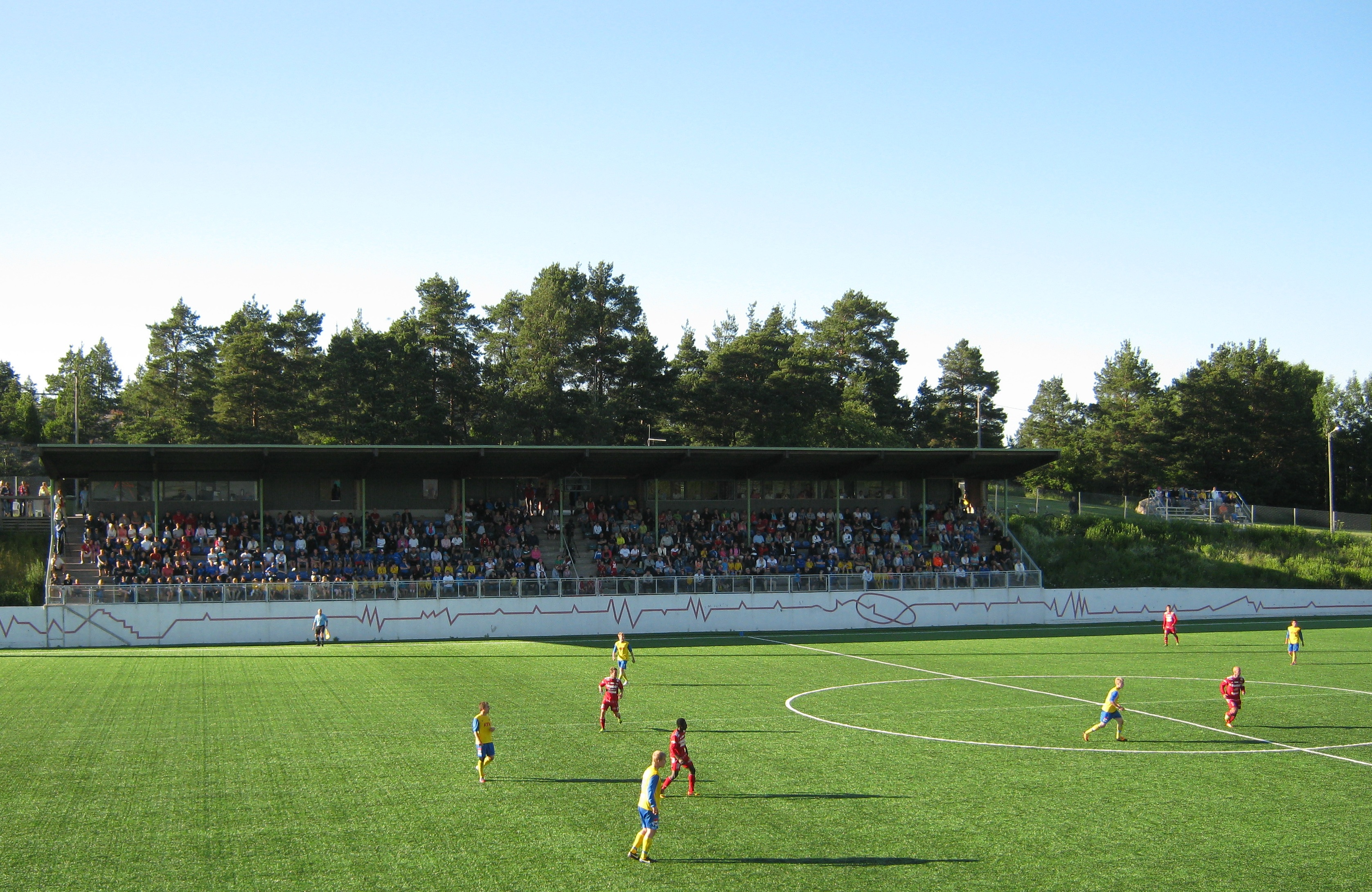 Äijänsuo stadium main stand, Rauma, Finland.